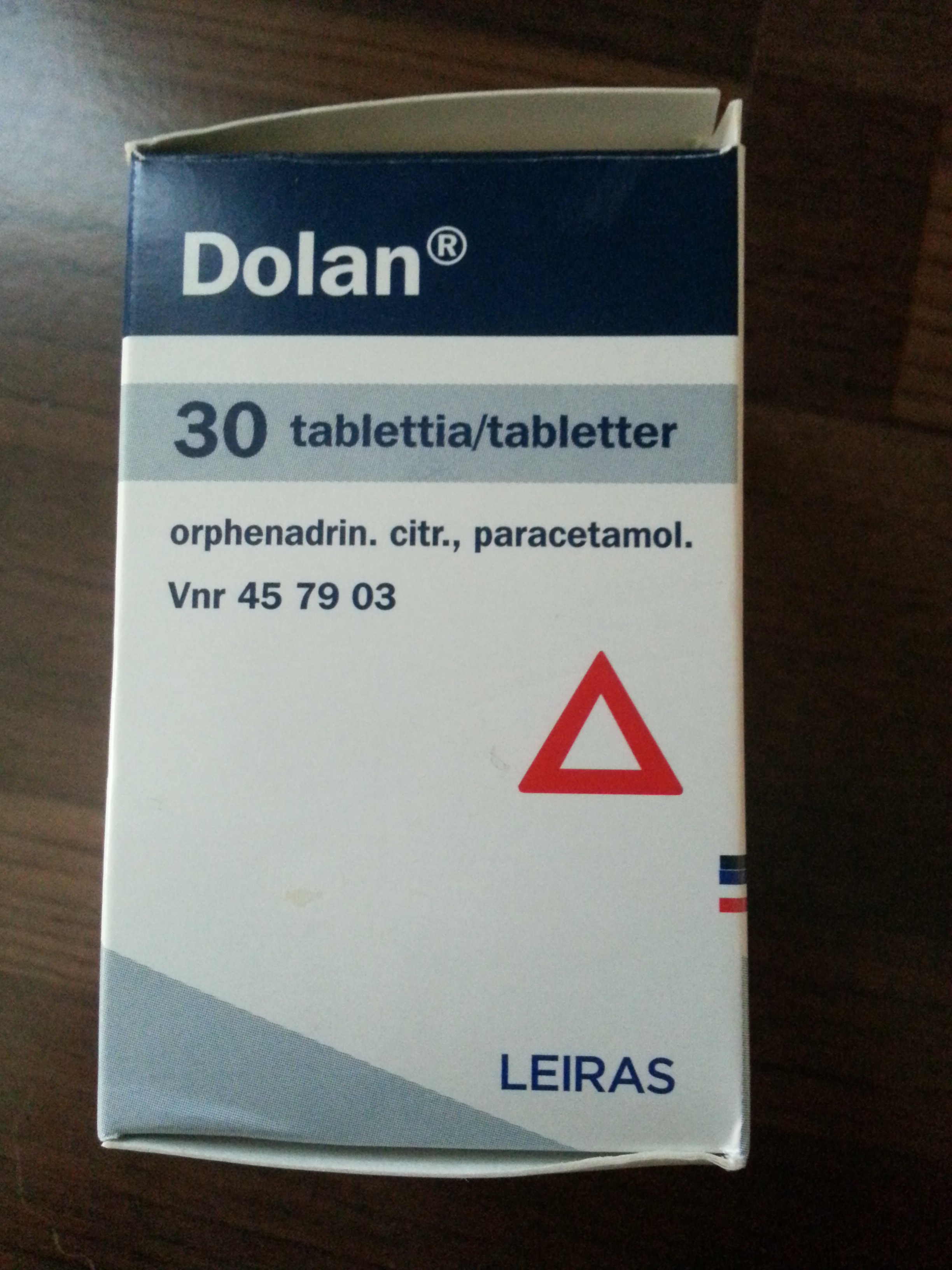 Dolan-muscle relaxant. (orphenadrine and paracetamol)